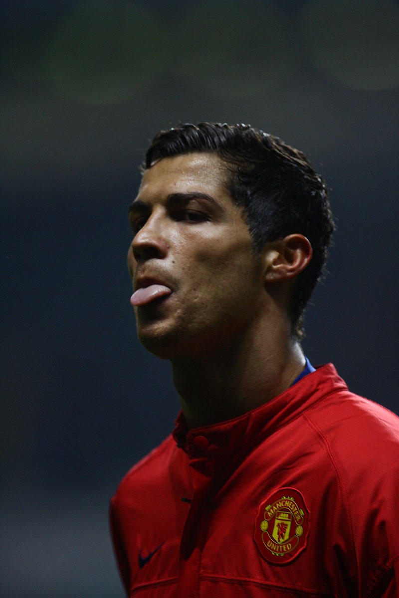 Football : Cristiano Ronaldo of Manchester United during the UEFA Champions League Group E match between Celtic and Manchester United at Celtic Park on November 5, 2008 in Glasgow, Scotland. (Photo by Tsutomu Takasu)